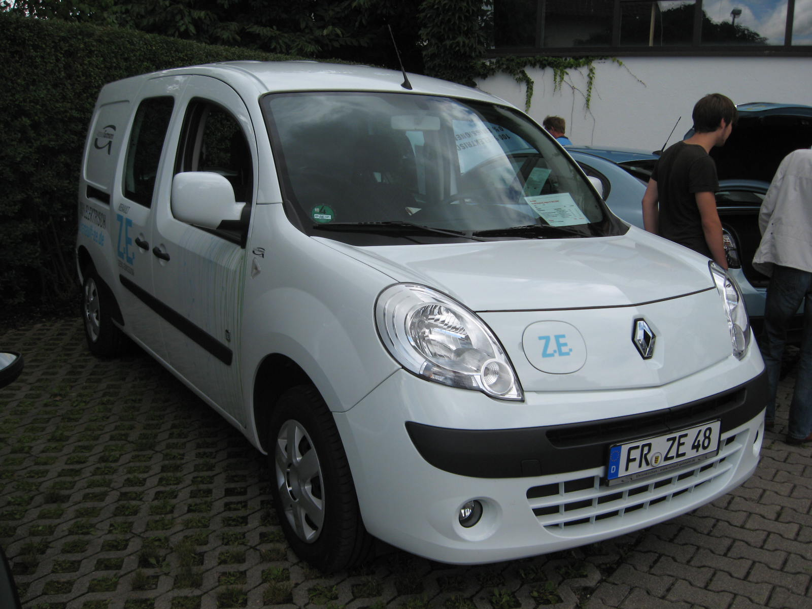 Electric Car Renault Kangoo Z.E. (Zero Emission), Germany, July 2012